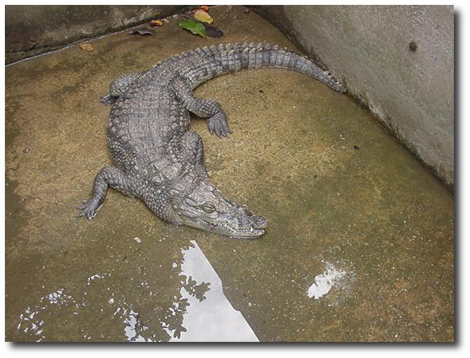 croc